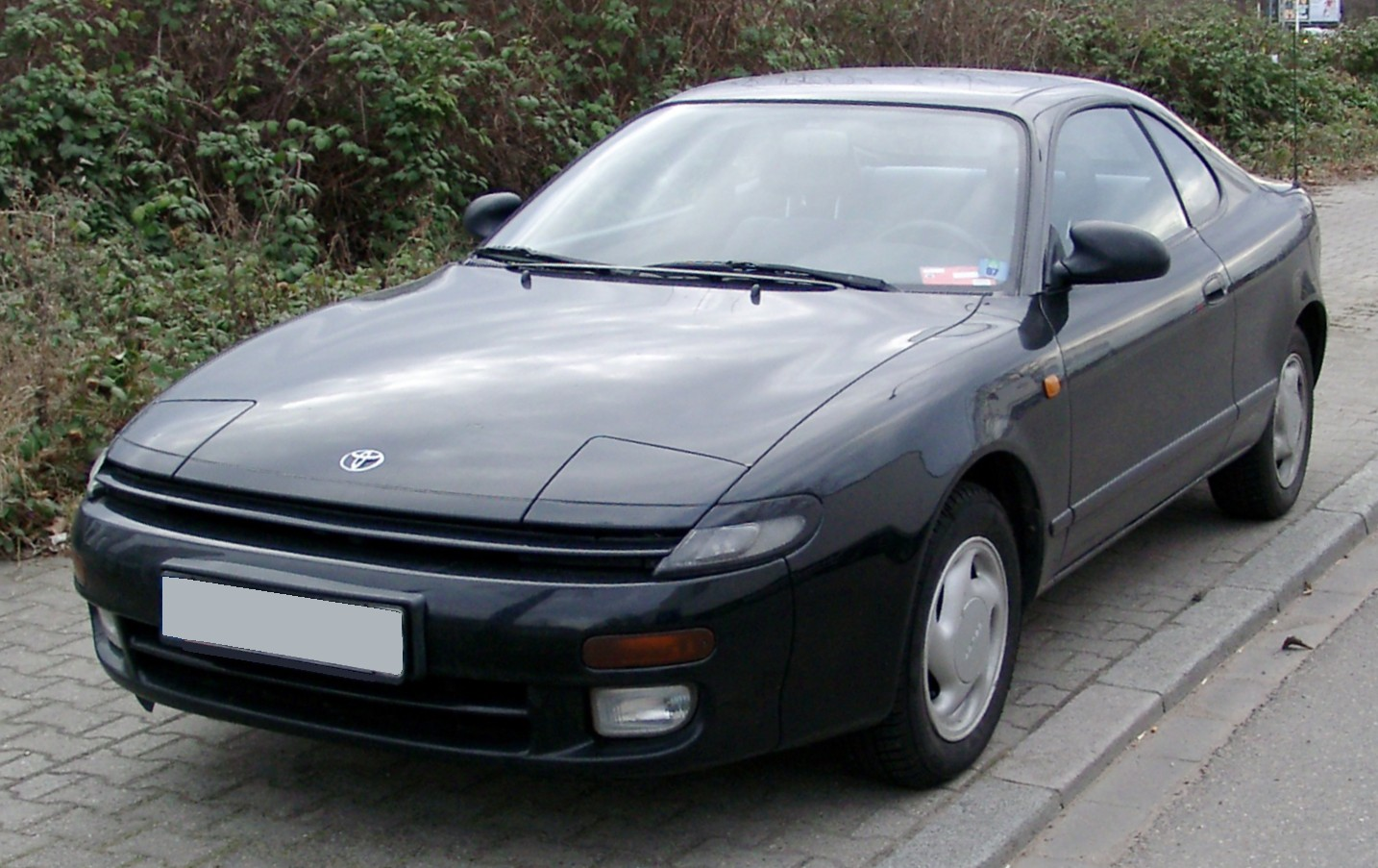 1992 Toyota Celica 1.6 ST-i Liftback (AT180)